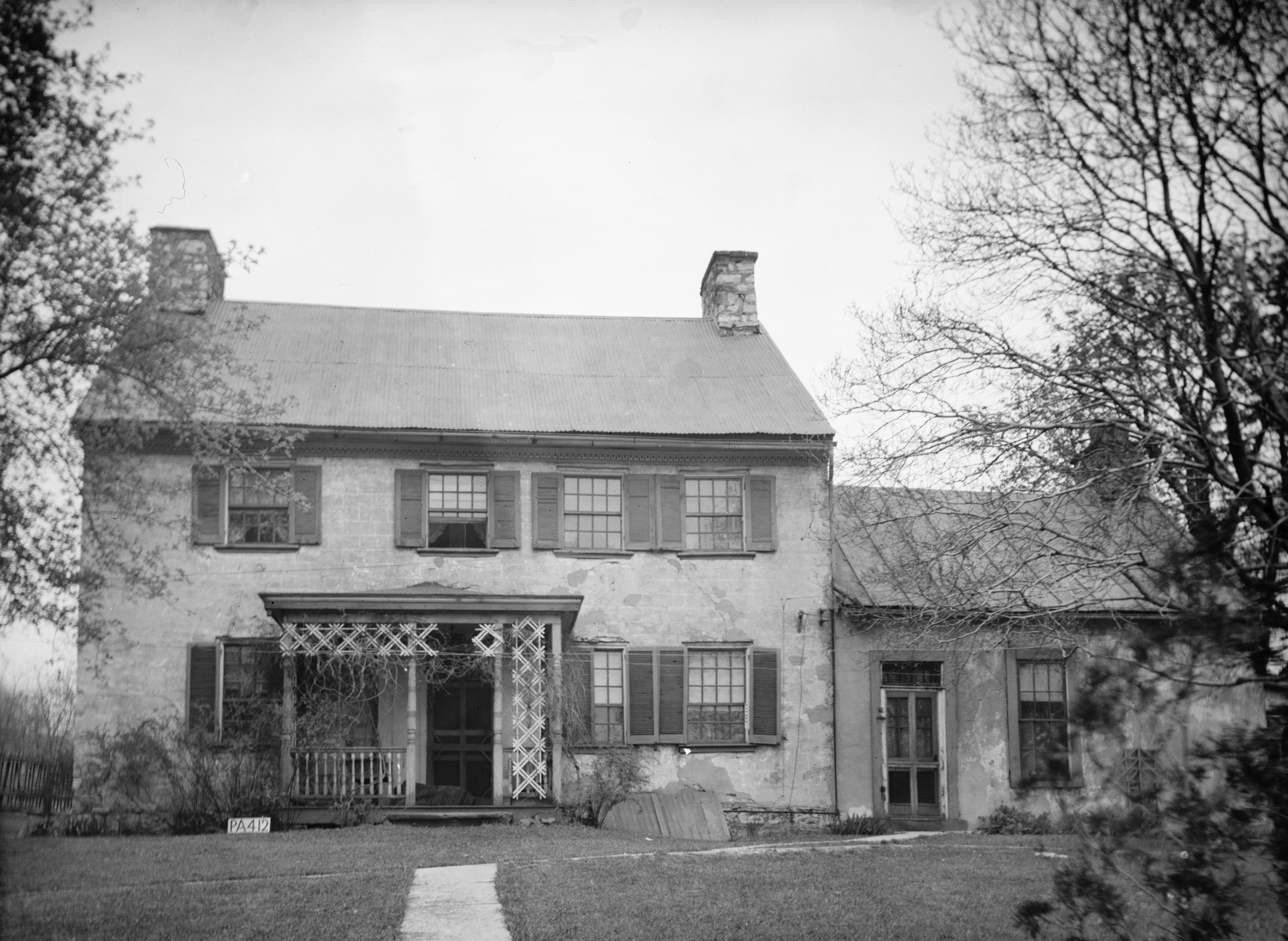 Front of the Col. Edward Cook House, located east of Belle Vernon in Washington Township, Fayette County, Pennsylvania, United States. Built in 1772, it is listed on the National Register of Historic Places.